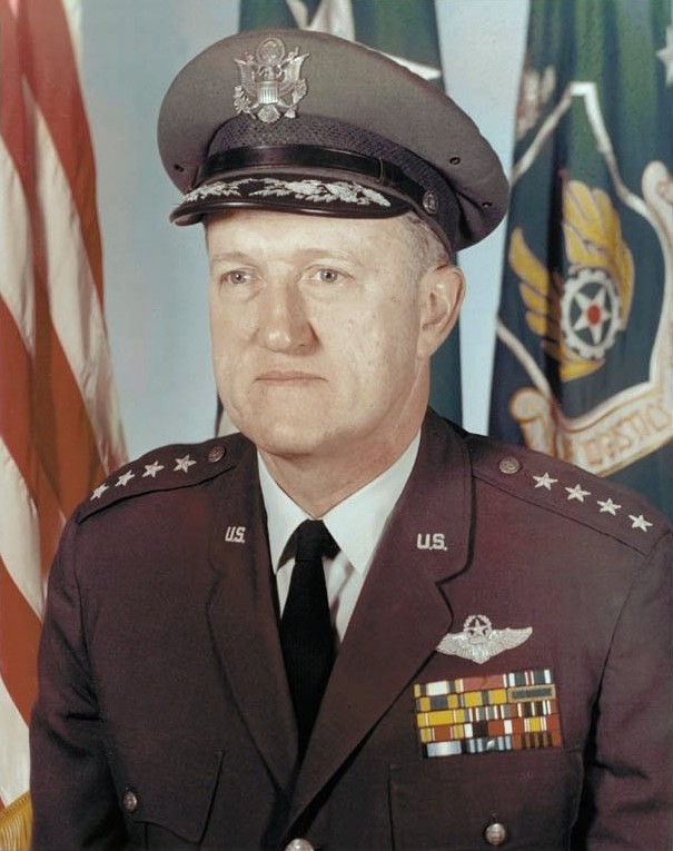 General Jack G. Merrell.